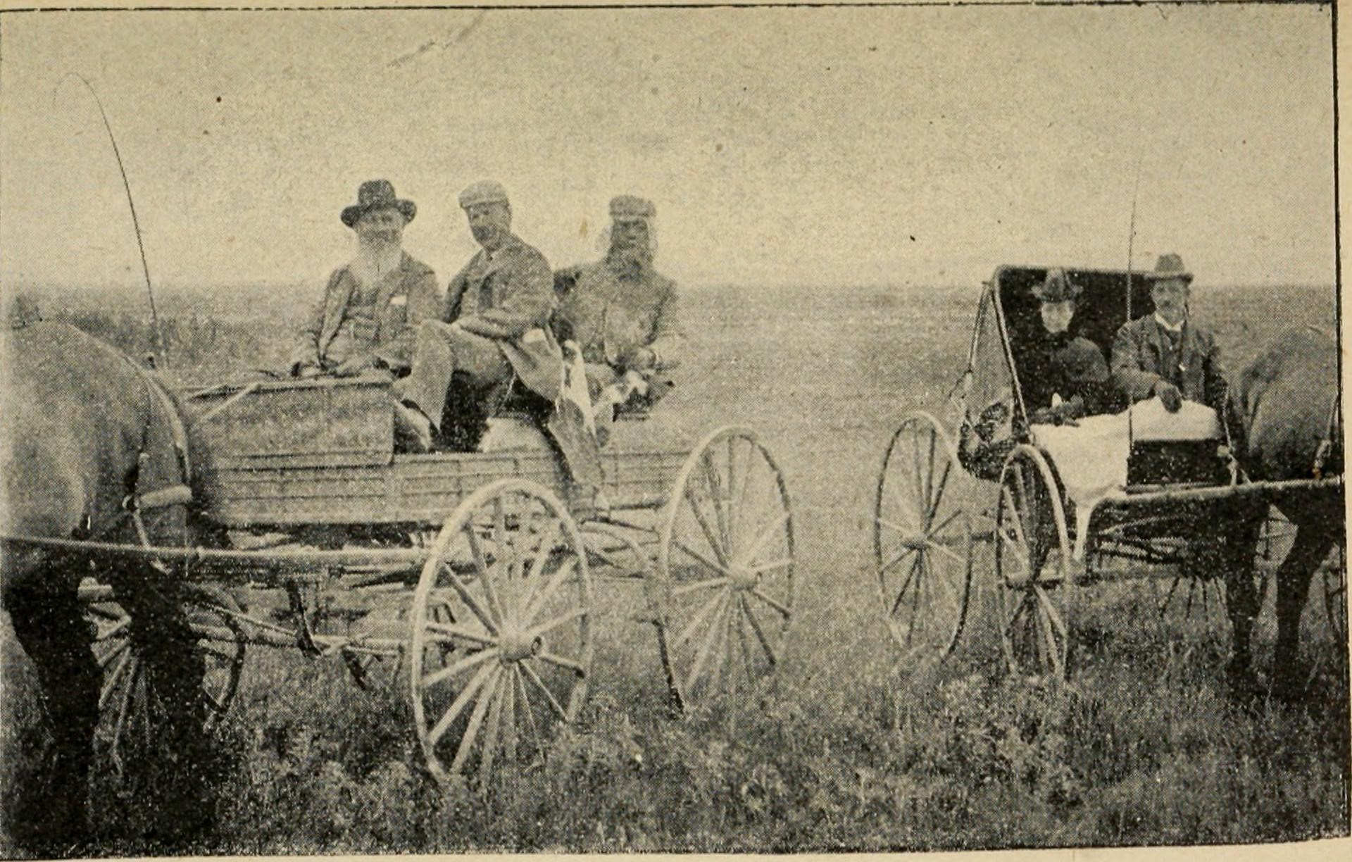 Title: Picturesque Cardston and environments : a story of colonization and progress in southern Alberta Year: 1900 (1900s) Authors: Subjects: Mormons Publisher: Cardston, N.W.T. : N.W. MacLeod Text Appearing Before Image: ' Text Appearing After Image: o ^3 ii picturesqueCardston and Environments A STORY OFCOLONIZATION and PROGRESS; IN SOUTHERN ALBERTA. CARDSTON, N.W.T. N. W. MACLEOD1900 Entered According to Act of Parliament of Canada, in the yearNineteen Hundred, by N. W. Macleod, in the Office of theMinister of Agriculture. HAROLD B. LEE LIBRARY 8RIGHAM YOUNG UNIVERSITY PROVO, UTAH INTRODUCTION. Southern Alberta has for many years been noted as one ofthe finest stock countries in the world. It is now conceded alsoto be a magnificent region for the establishment of homes. Allwho have located here have succeeded in temporal afiairs; theyhave tilled the soil, reaped harvests in accordance with thatwhich they have sown; have made themselves comfortablehomes, built villages and hamlets and become an importantfacfor in the development of the great North-West. The extensive irrigation system recently inaugurated by theCanadian North-West Irrigation Company in Southern Alberta—a system that extends from a point on the St. Marys river,picturesquecards00card